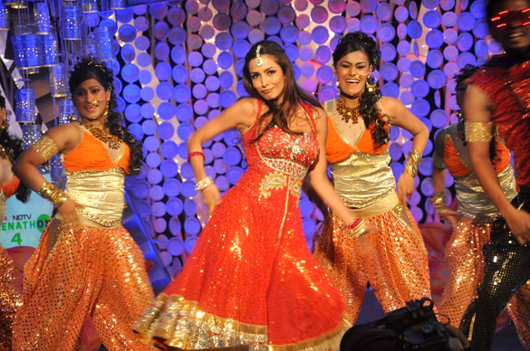 Malaika Arora From The NDTV Greenathon at Yash Raj Studios